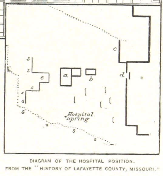 A map of the area around the Anderson House during the First Battle of Lexington. Original description: Explanation of the Diagram of the Hospital Position : a is the Anderson house or hospital ; b a smaller brick house back of it ; c an outlying low earthwork, projecting down nearly into the ravine, represented by the dotted line, while the inclosed earthwork was built up around the head of the ravine, as shown by the plain line ; d the sally-port in the earthworks, about one hundred yards from the hospital ; e a canal-like carriageway leading up to the house, and in which the sharp-shooters lay secure, only about eighty feet from the front door of the hospital; the brackets represent Federal picket-guard stations with a little dirt thrown up for protection; the dotted line sss shows deep gorge or ravine which was full of Confederate sharp-shooters.""